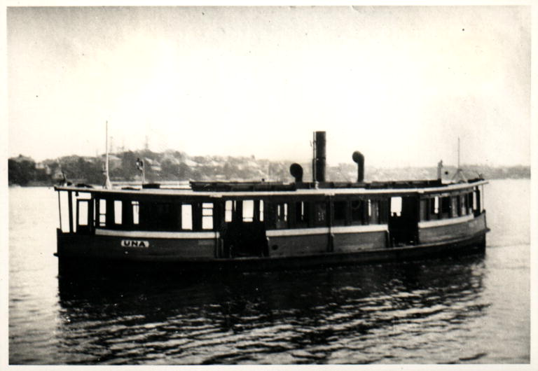 Sydney Ferry UNA (built 1898, burnt 1927), shown circa 1920s File 084/084465 DATE 1920s. FORMAT Digital image only. Many of the images in this collection are available as hi-res jpegs. Please contact the City of Sydney Archives on a case by case basis. RECORDSERIES Sydney Reference Collection CITATION Graeme Andrews 'Working Harbour' Collection: 84465 PROVENANCE City of Sydney Archives NOTES S105211